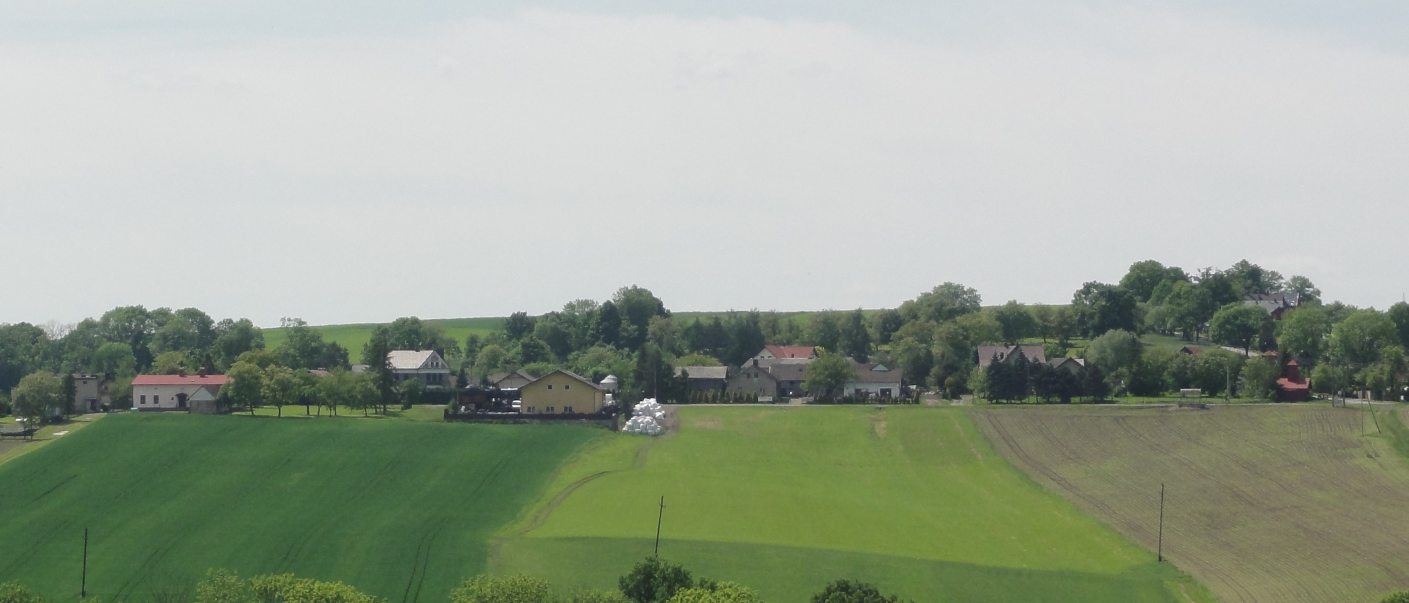 Gumna spod lasu Kamieniec